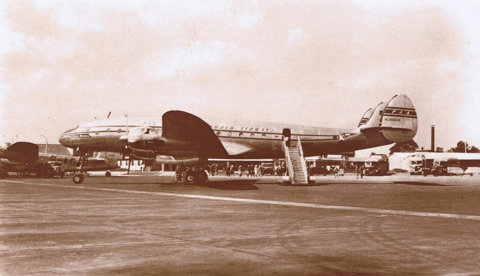 A Pan American Airways Lockheed L-049 Constellation (N88846/2046) at London-Heathrow.